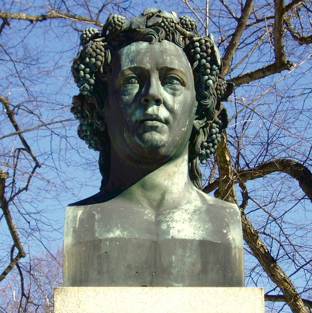 Carl Michael Bellman, swedish poet, bust by Johan Niclas Byström (Bellmansro, Djurgården, Stockholm)